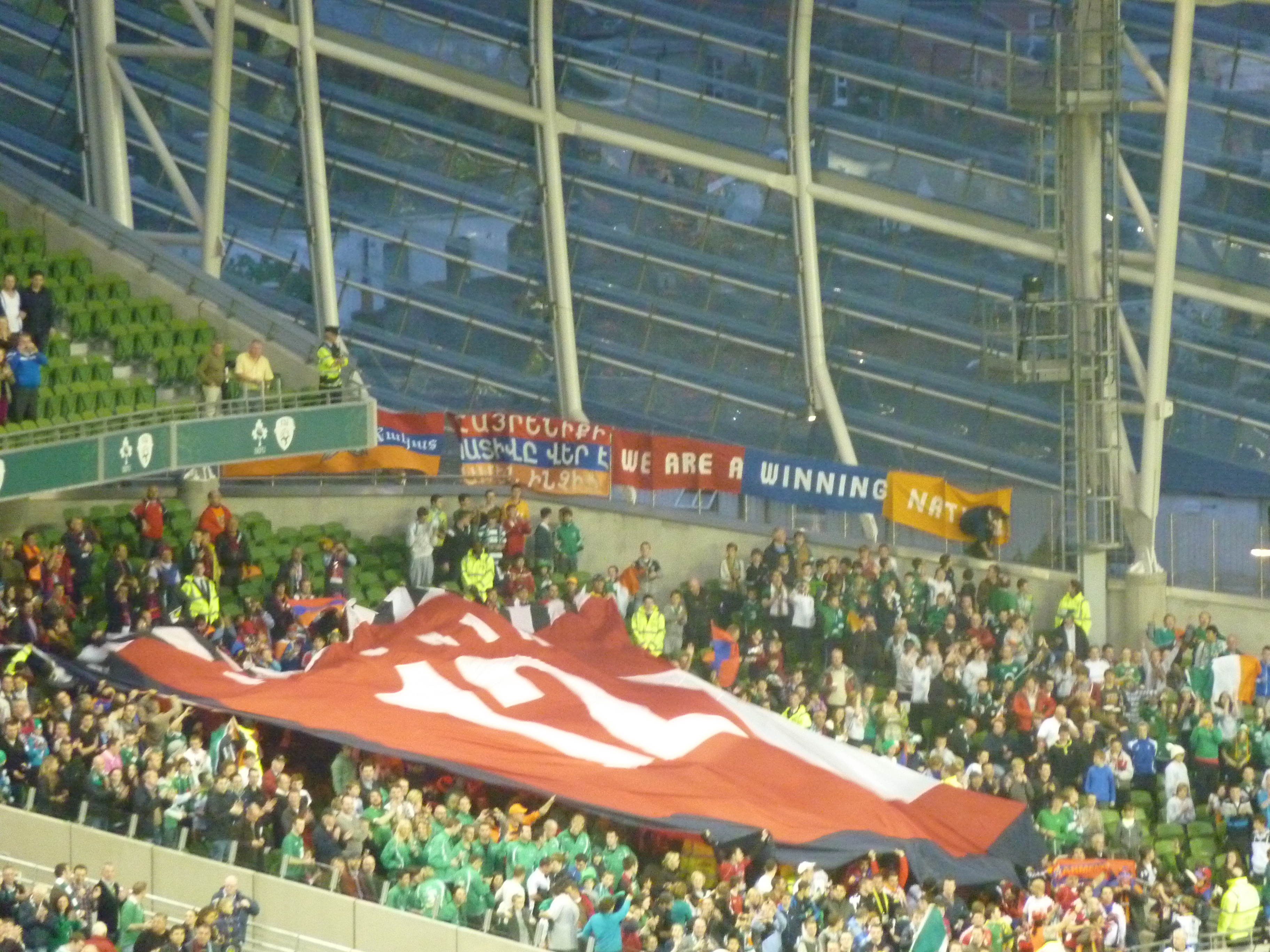 Armenian fans in Dublin